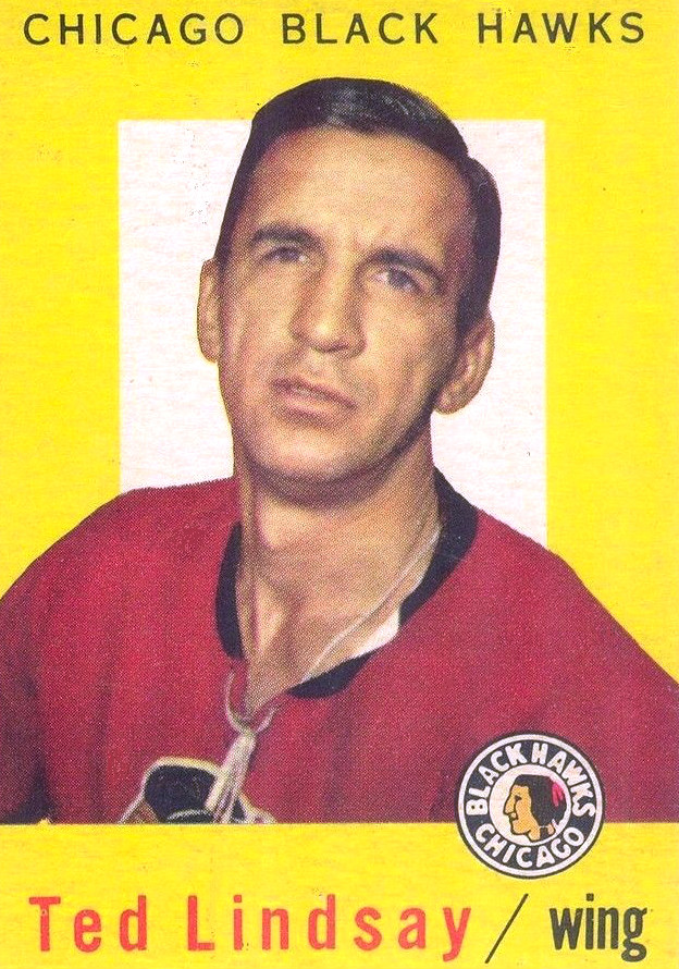 Trading card photo of Ted Lindsay as a member of the Chicago Blackhawks.